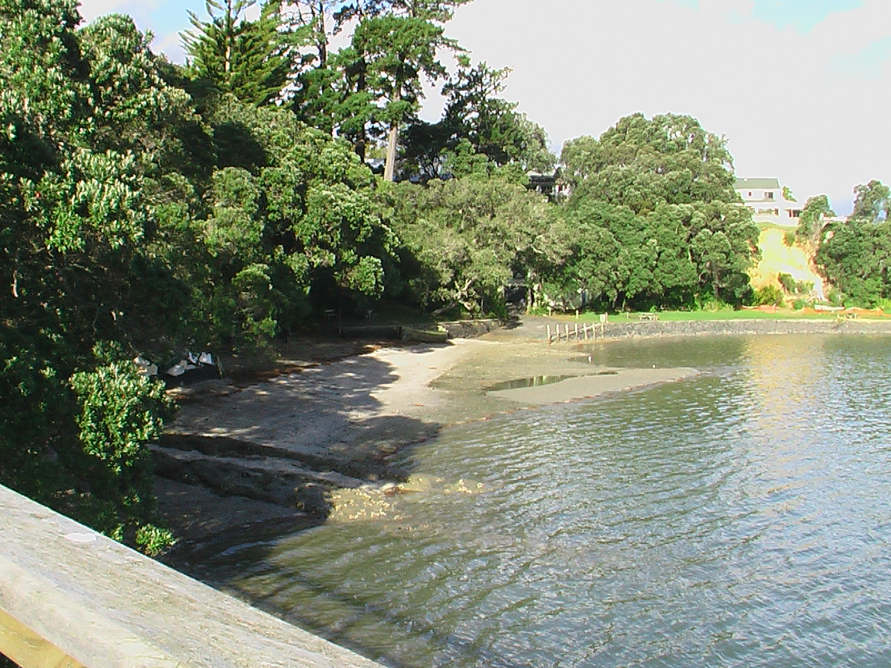 Beach Haven Wharf at its present state of mid 2007.